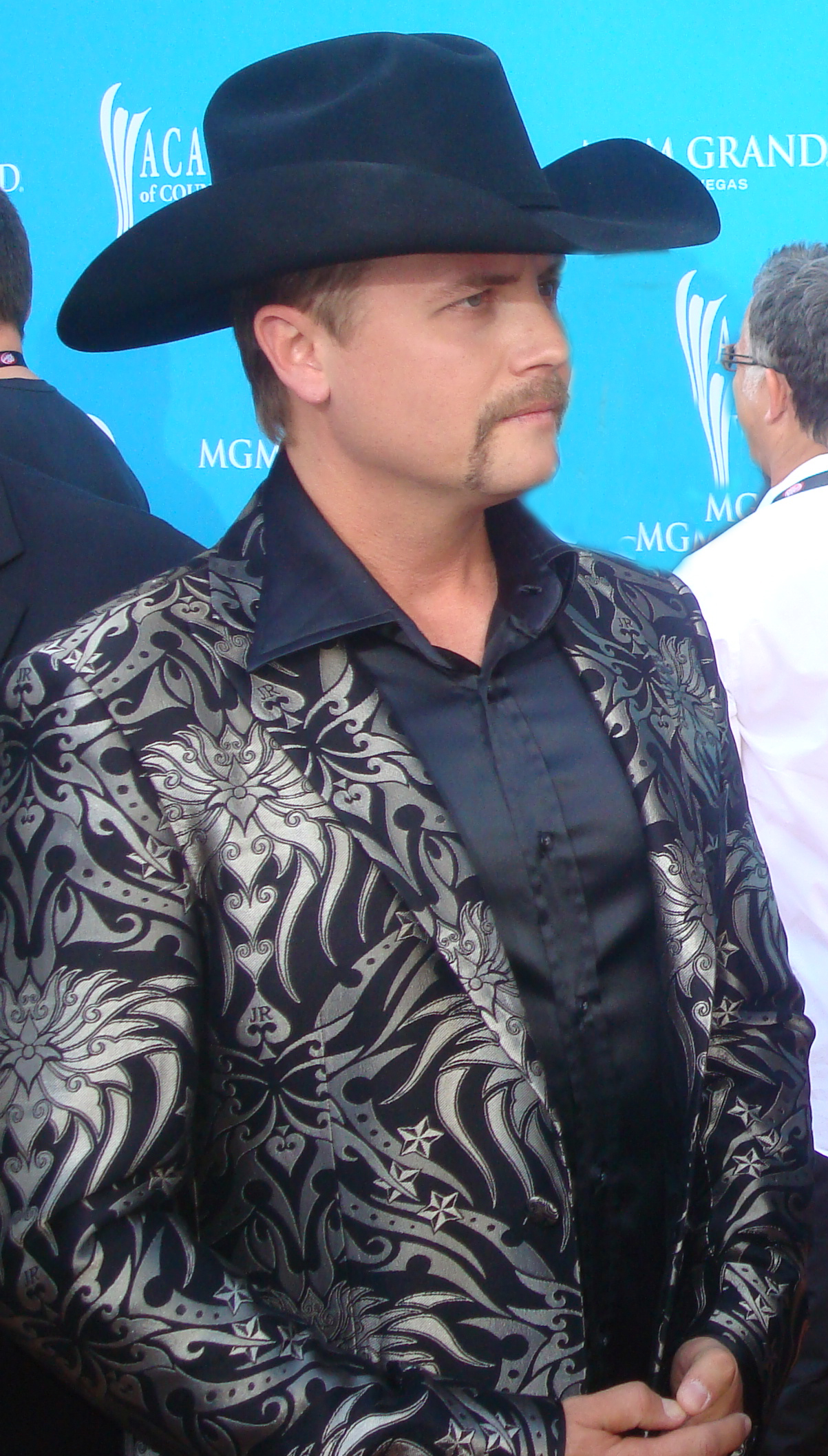 John Rich at the 45th Annual Academy of Country Music Awards.